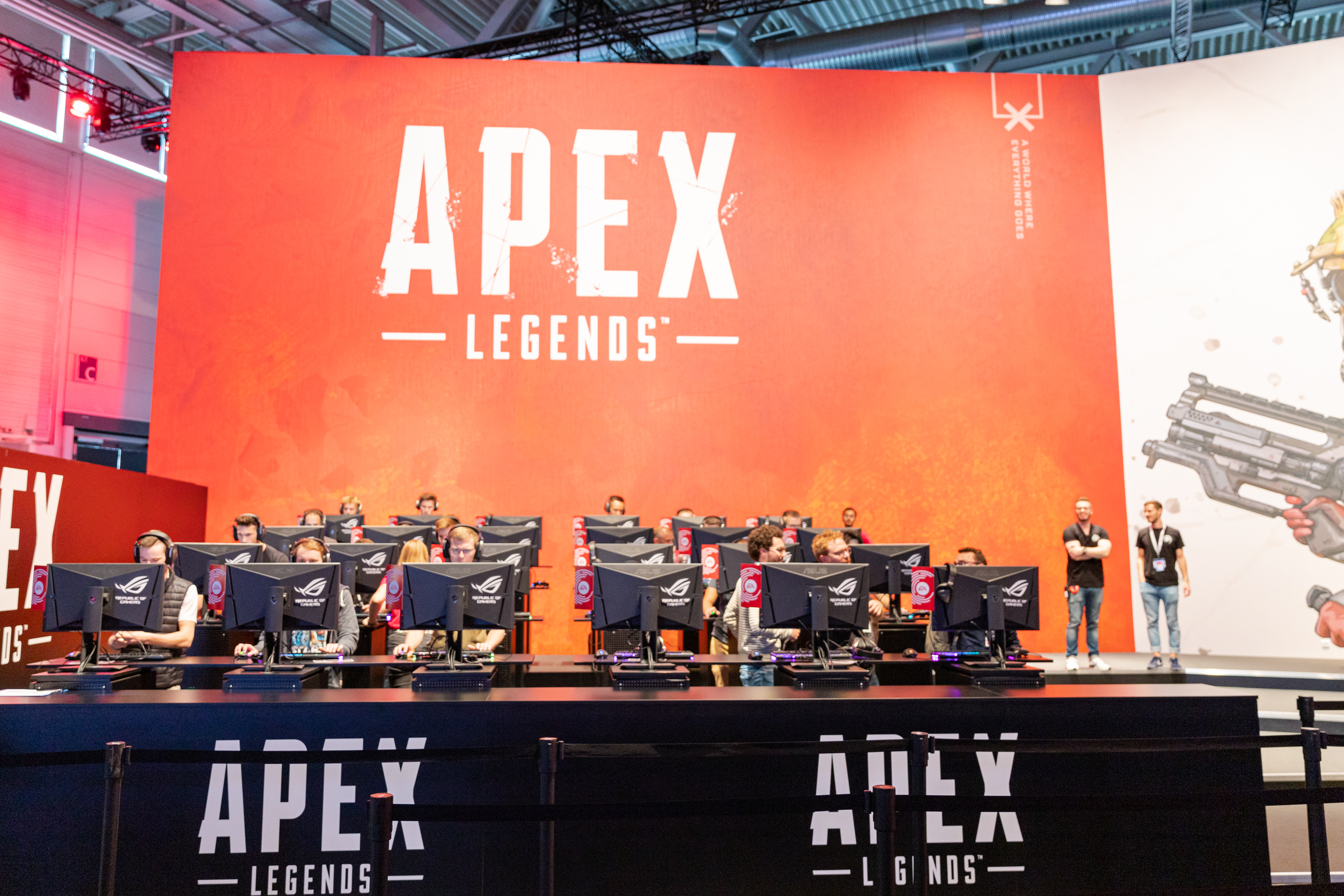 Apex Legends gaming Gamescom 2019